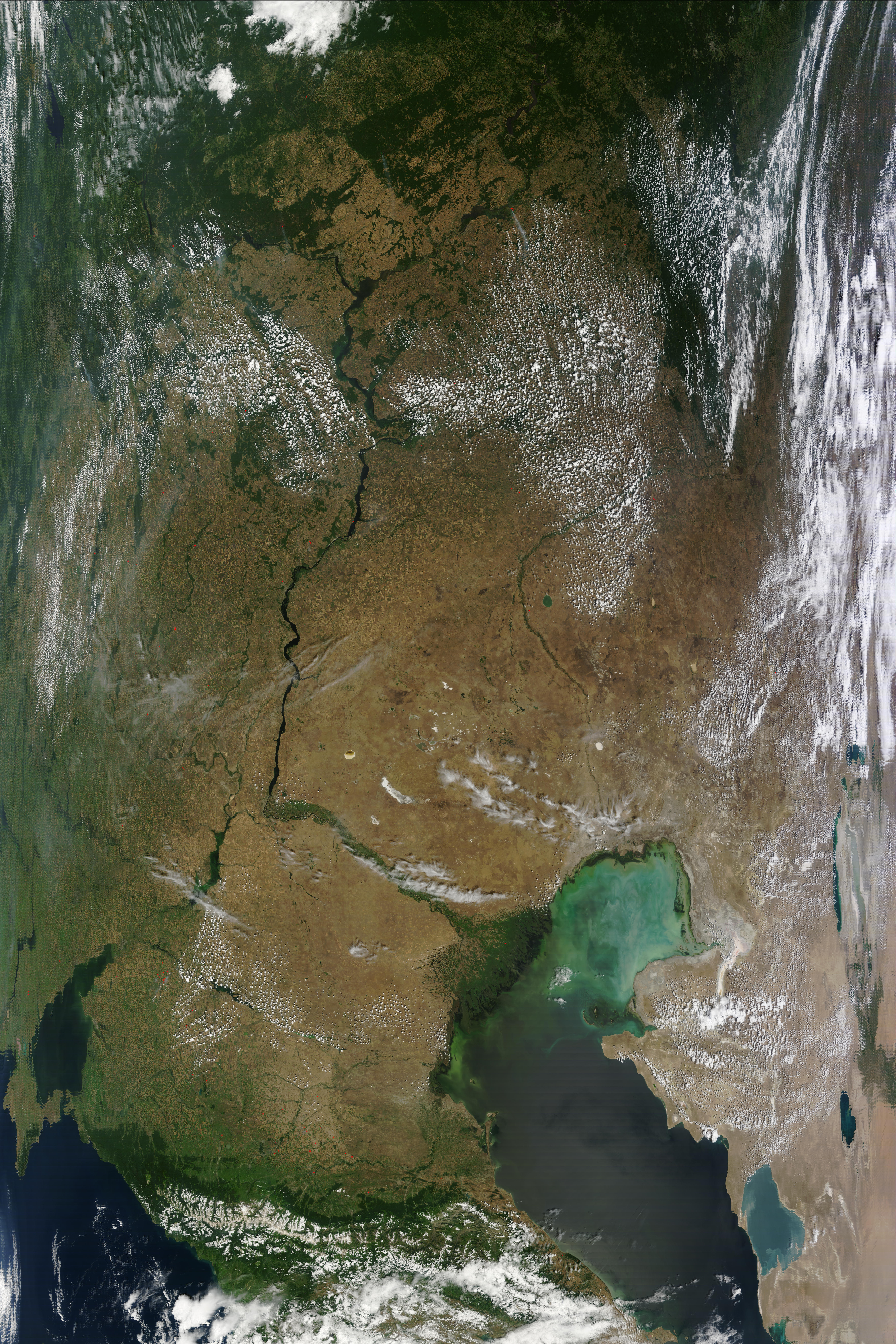 Photo taken by Terra/MODIS satellite on 2010-07-17 at 750 UTC. Much of Volga River can be seen, including the massive delta where it drains into the Caspian Sea.